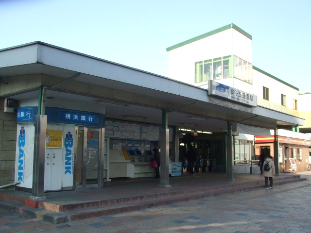 South building of Mukogaoka-Yuen station,OER-ODAWARA-LINE,Odakyu Electric Railwey,Japan